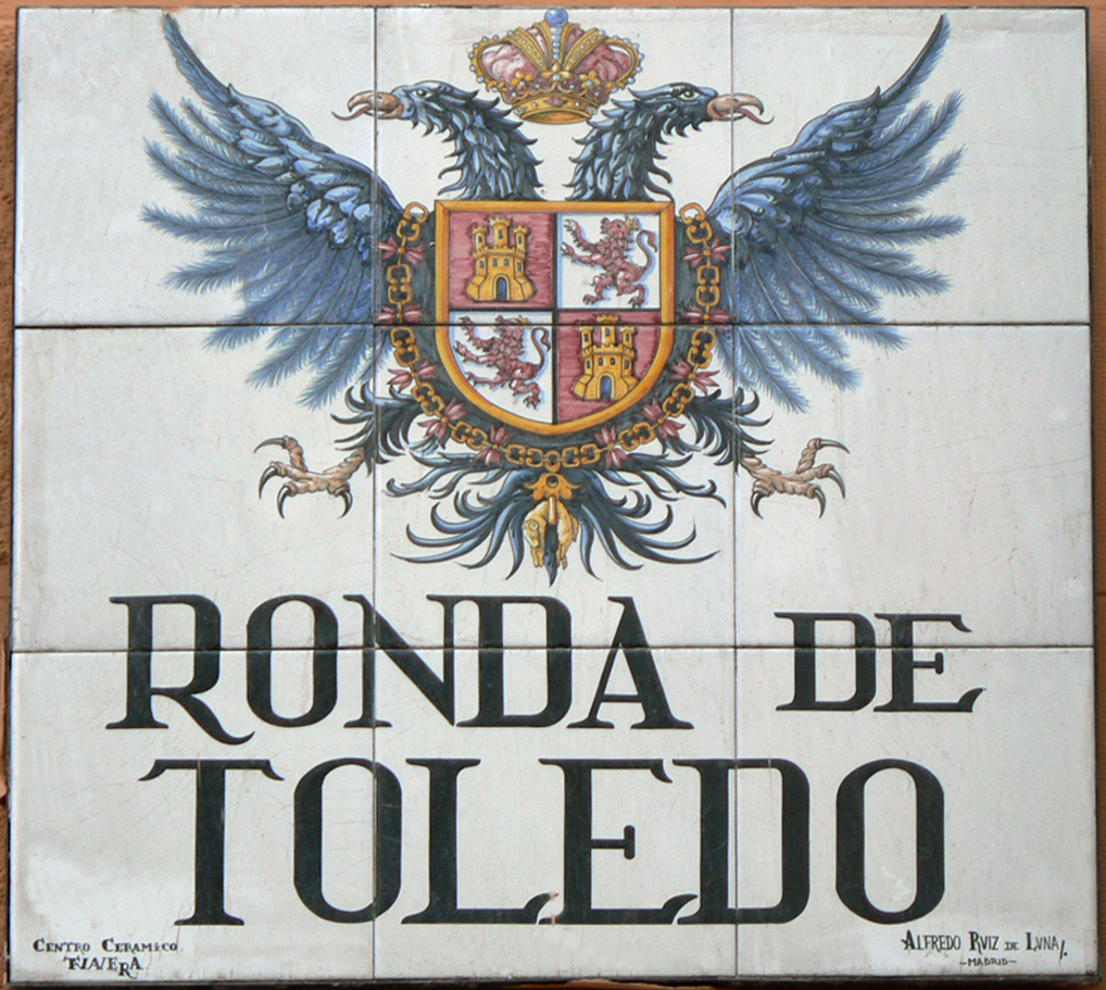 Sign of Ronda de Toledo (street, Centro district) in Madrid (Spain).